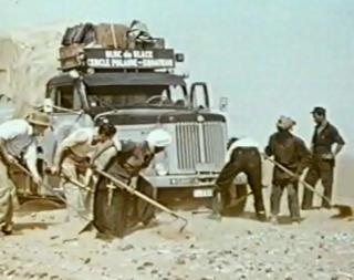 The ice block expedition of 1959 gets stuck in the Sahara.